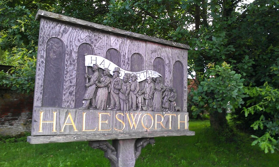 Town placard for Halesworth in Suffolk.